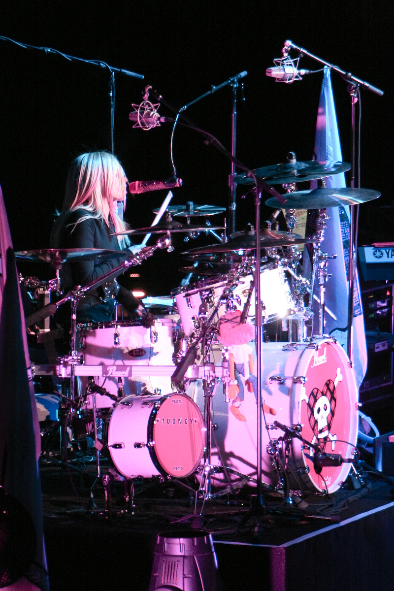 Avril Lavigne on drums